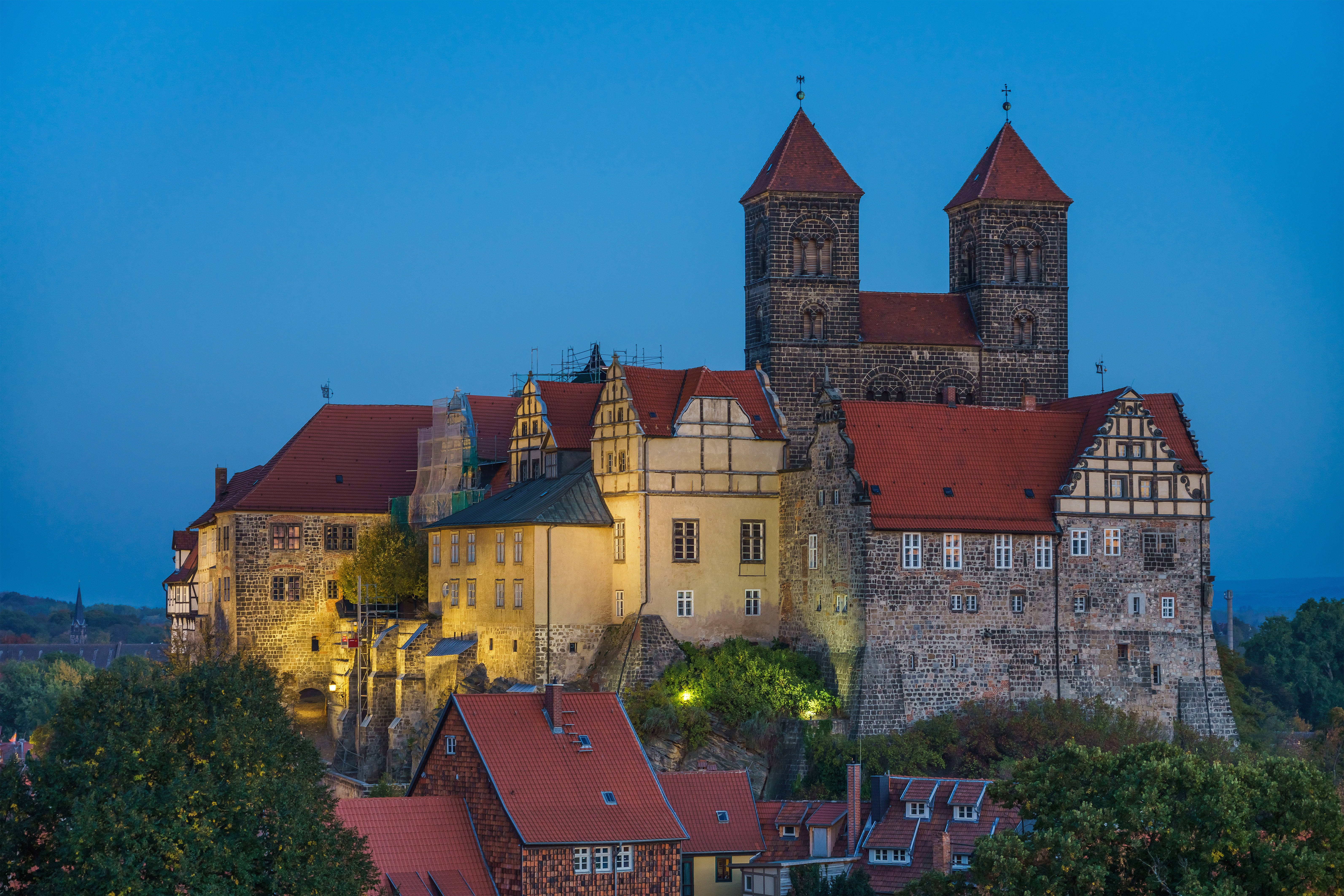 Castle and Collegiate Church in Quedlinburg, Germany